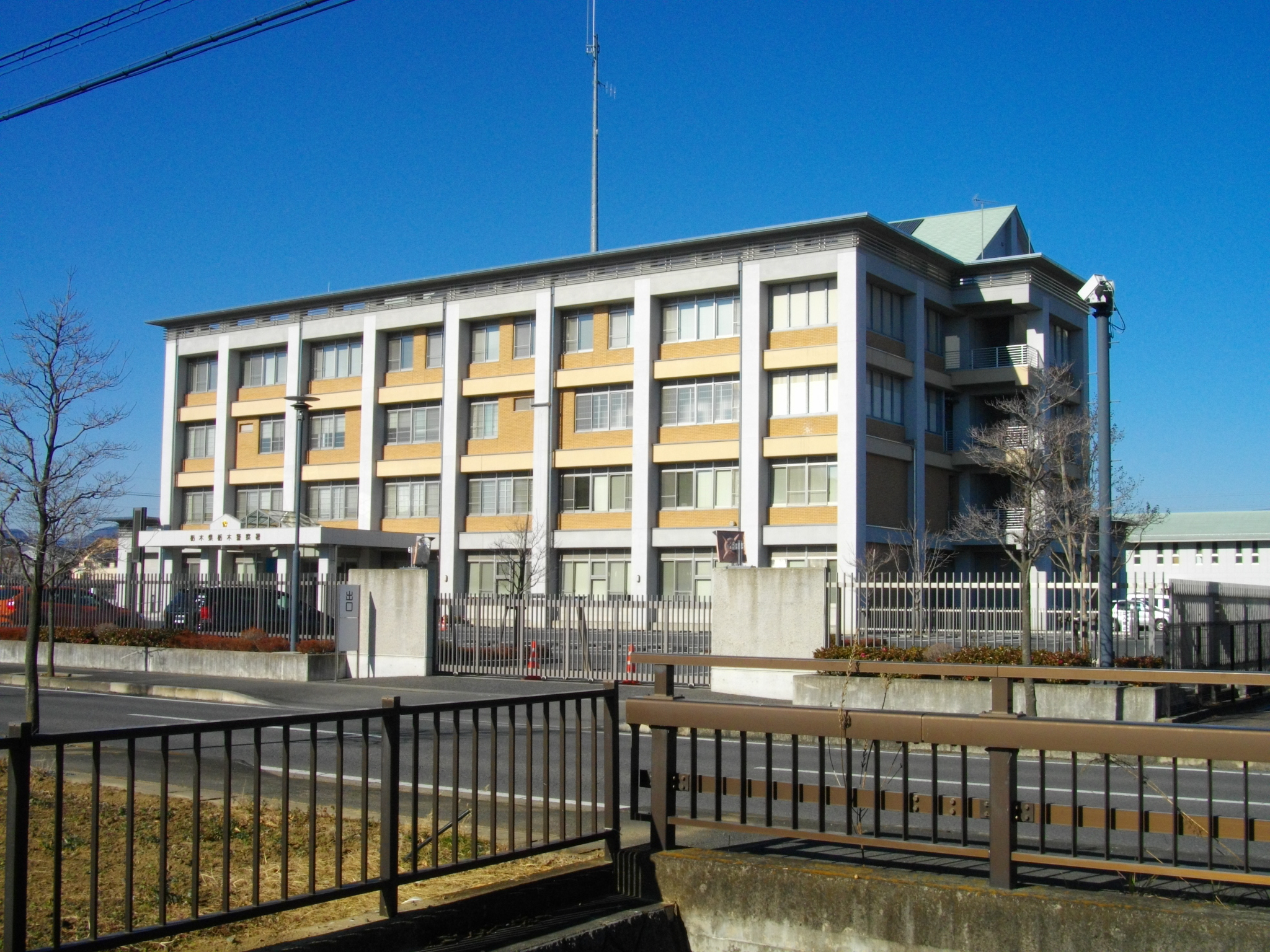 Tochigi Police Station